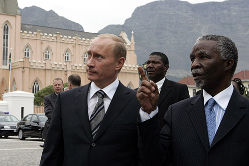 CAPE TOWN. With President of South Africa Thabo Mbeki.